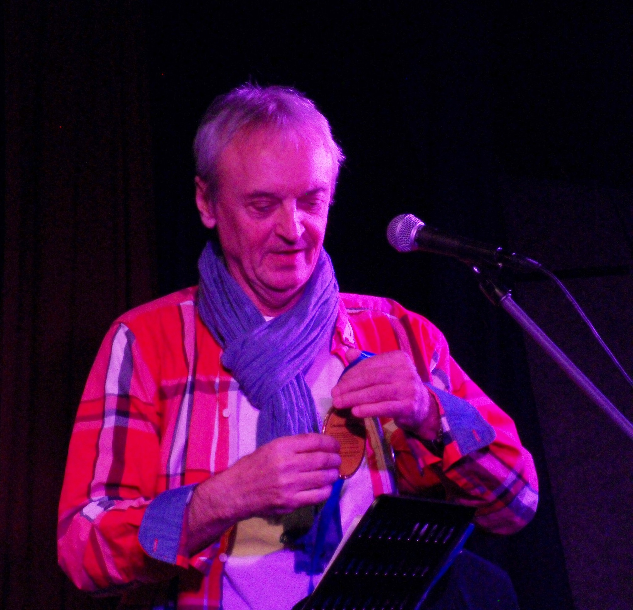 Jiří Rybář, drummer and vocalist of czech rock band Synkopy 61, Brno, Czech Republic